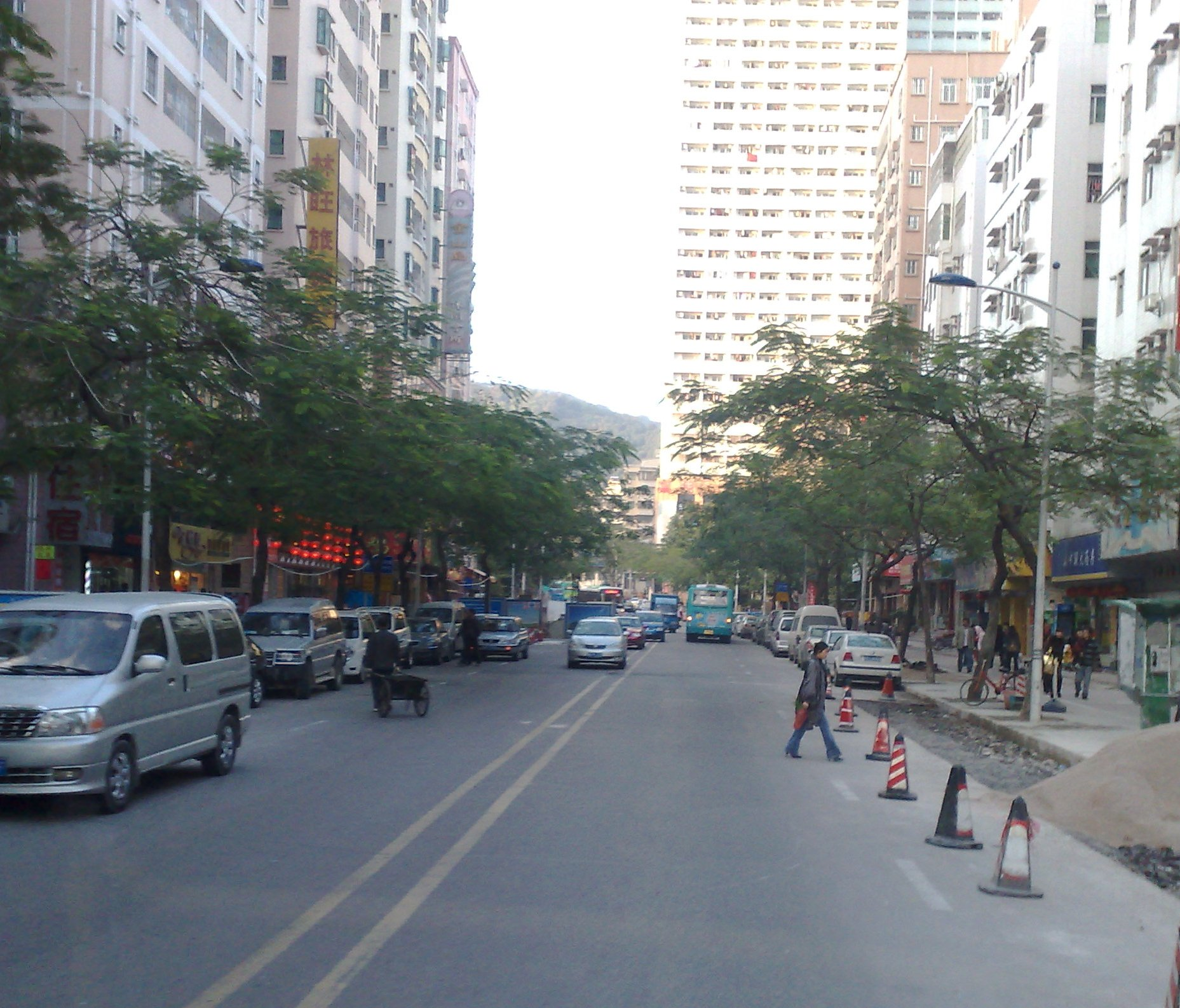 A street in Upper Meilin, Shenzhen